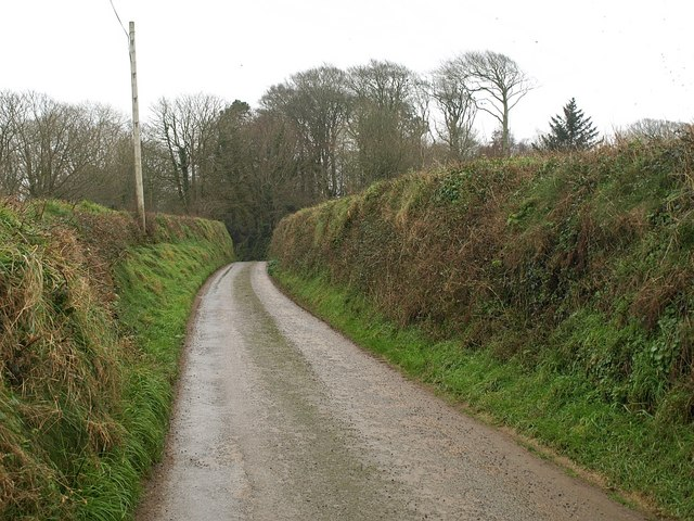 Lane to Trenarren The lane from Lobb's Shop approaches trees which shelter the small parking area above Ropehaven Cliffs.